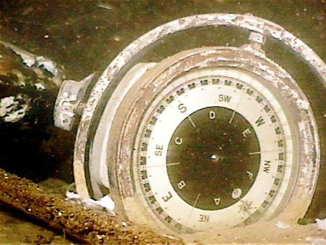 Dakar bridge Gyro repeater lying on the sand